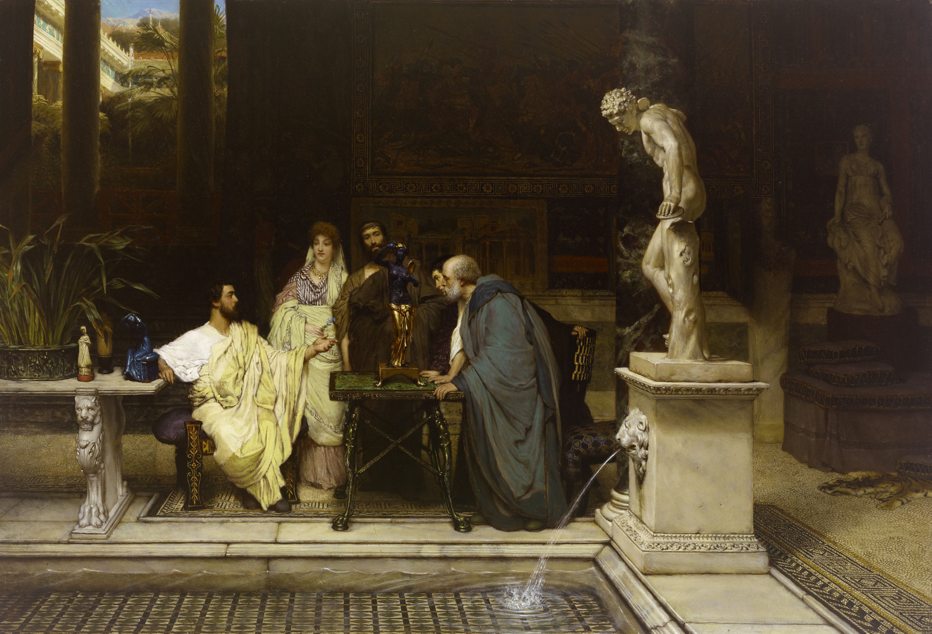 Lawrence Alma-Tadema's art. Also known as A Roman Art Lover and A Roman Amateur